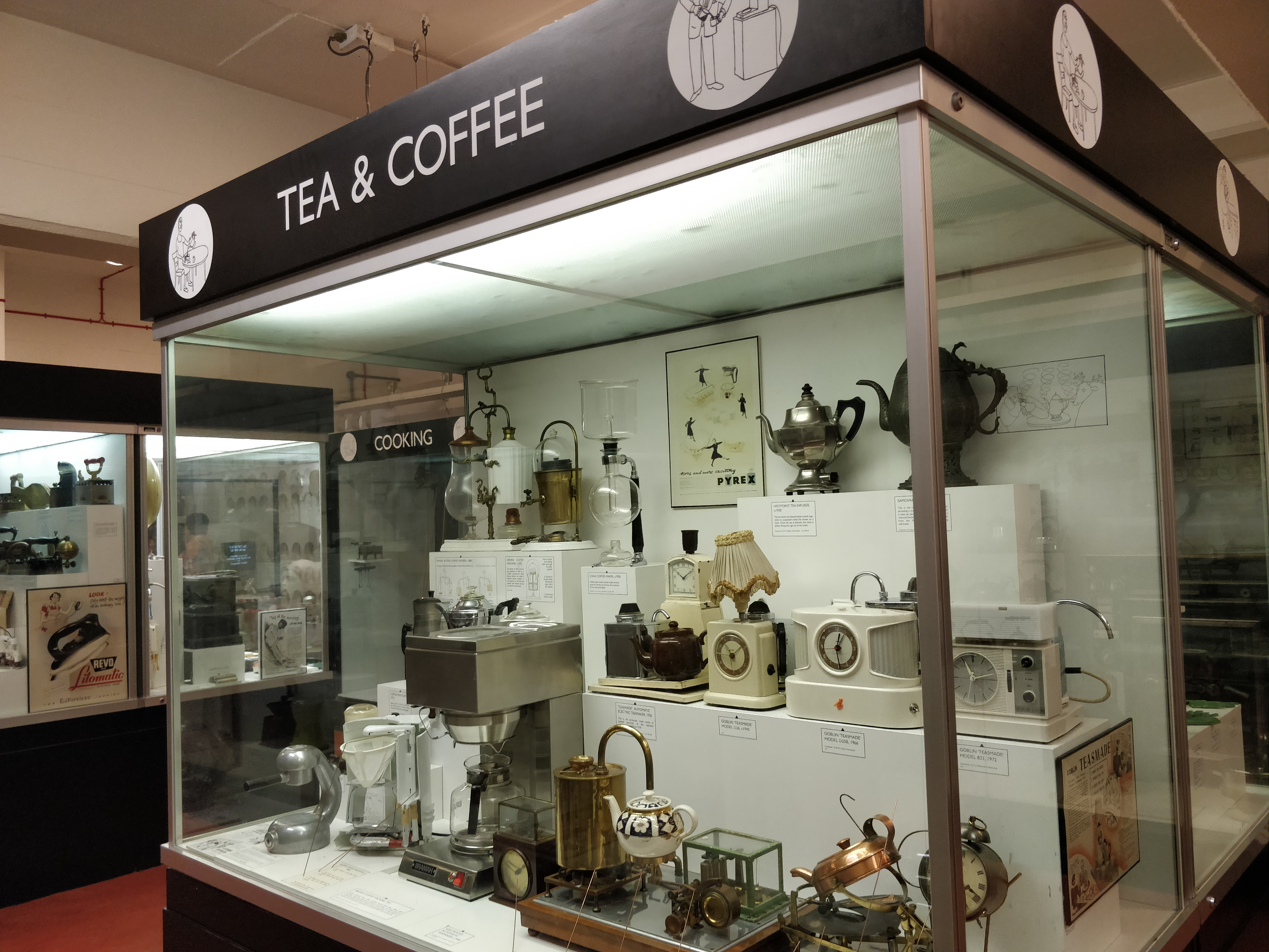 Exhibit of Teasmades and other tea makers at the Science Museum, London, 2019. The exhibit is part of the Secret Life of the Home gallery designed by Tim Hunkin and opened to the public in 1995.